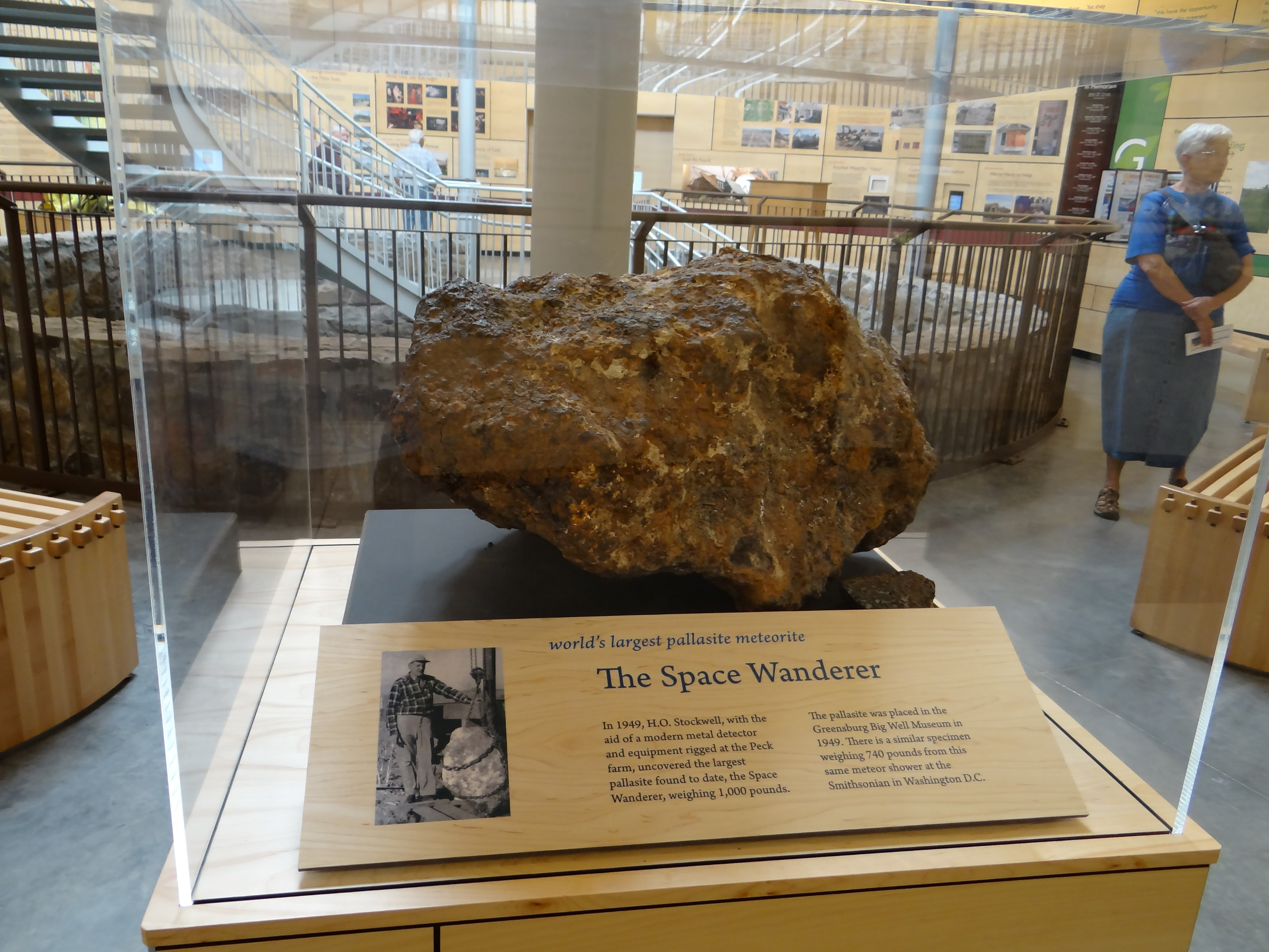 "World's Largest Pallasite Meteorite" in Greensburg, Kansas.